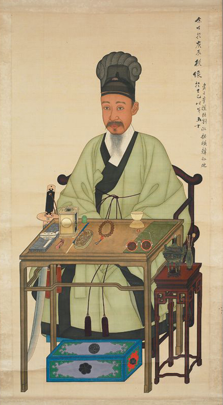 Portrait of Heungseon Daewongun, Yi Haeung wearing Waryonggwan and Hakchangui